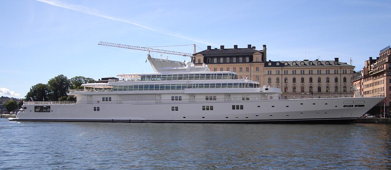 The Rising Sun yacht at Nybrokajen by Nybroviken in Stockholm, Sweden